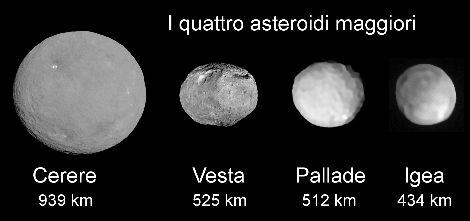 These are the four largest asteroids (known as "The Big Four"), Ceres (939 km), Vesta (525 km), Pallas (512 km), Hygiea (430 km).